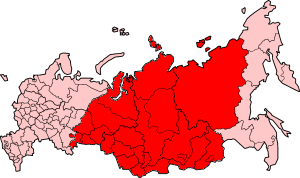 Map of Russia with West Siberian Plain and the Central Siberian Plateau highlighted. Uploaded on 29 December 2004, 08:56, by user Foobaz on English Wikipedia with description "Map of Siberia made from Image:RussiaSakha.png" and released under GFDL v1.2 license.